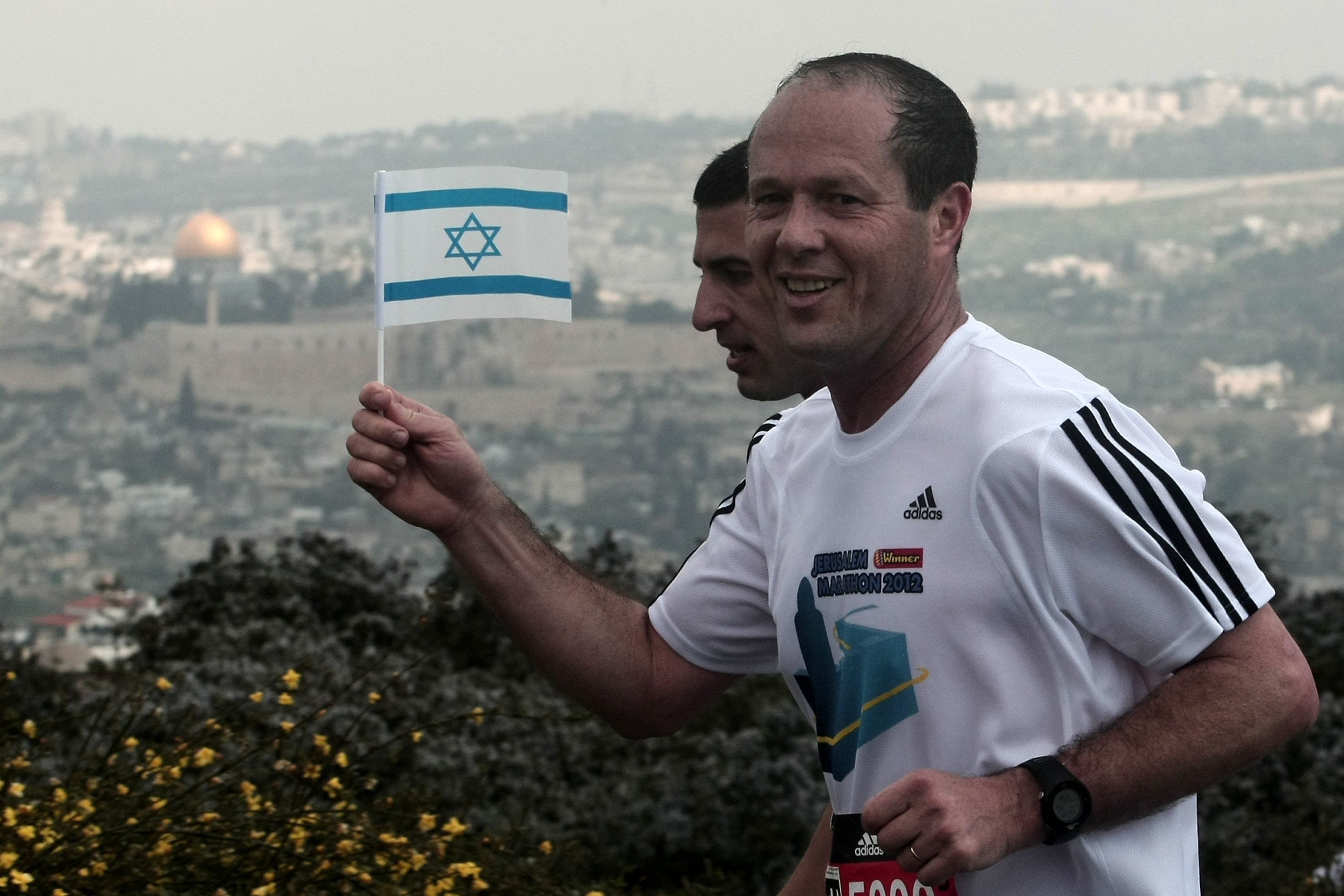 Photo by Kobi Gideon / Flash90 - Runners of the Half Marathon Course (color red)